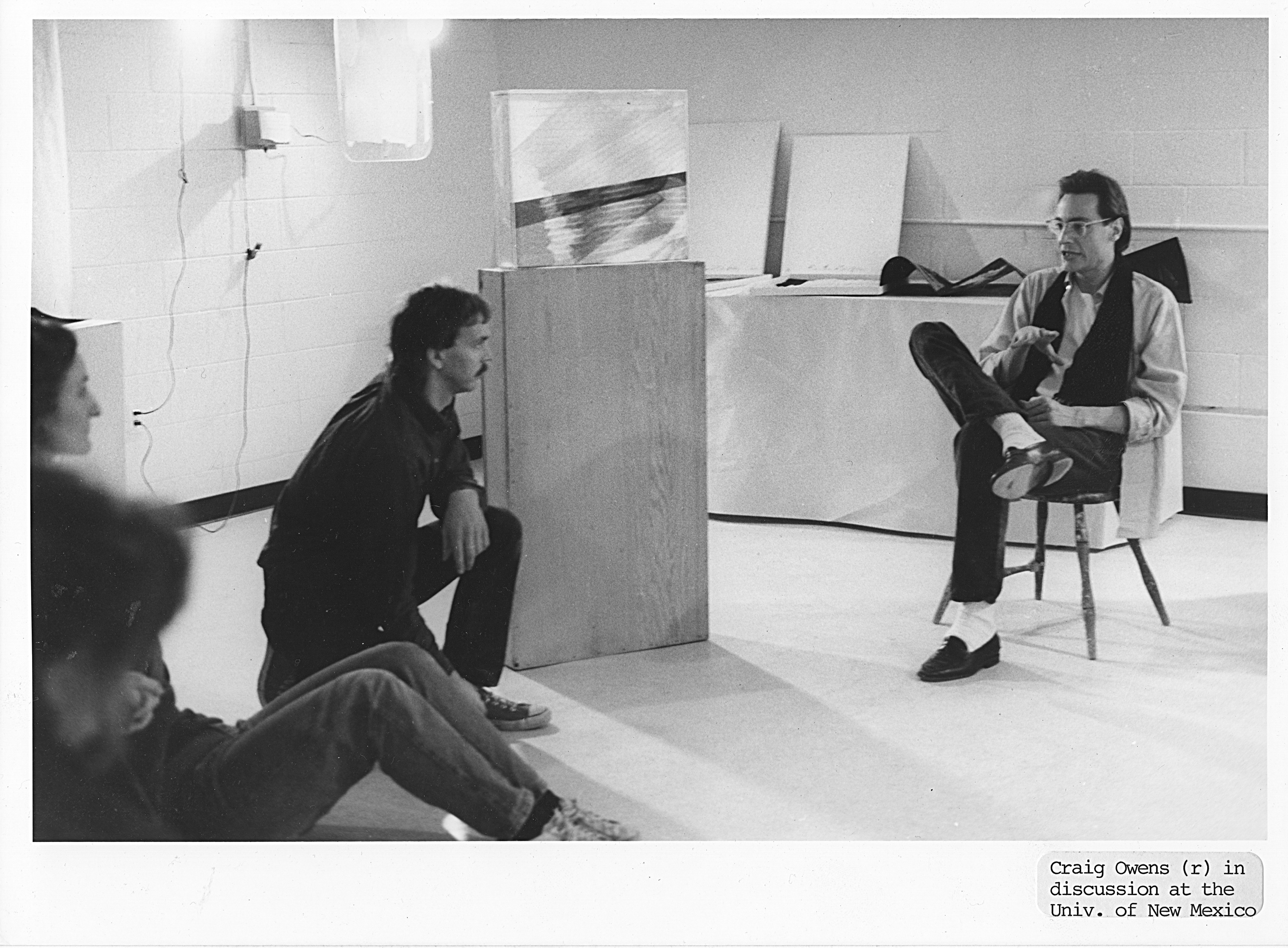 Craig Owens speaking to students about the role of media in art and culture, at the University of New Mexico in 1986, during the ART/MEDIA event series.